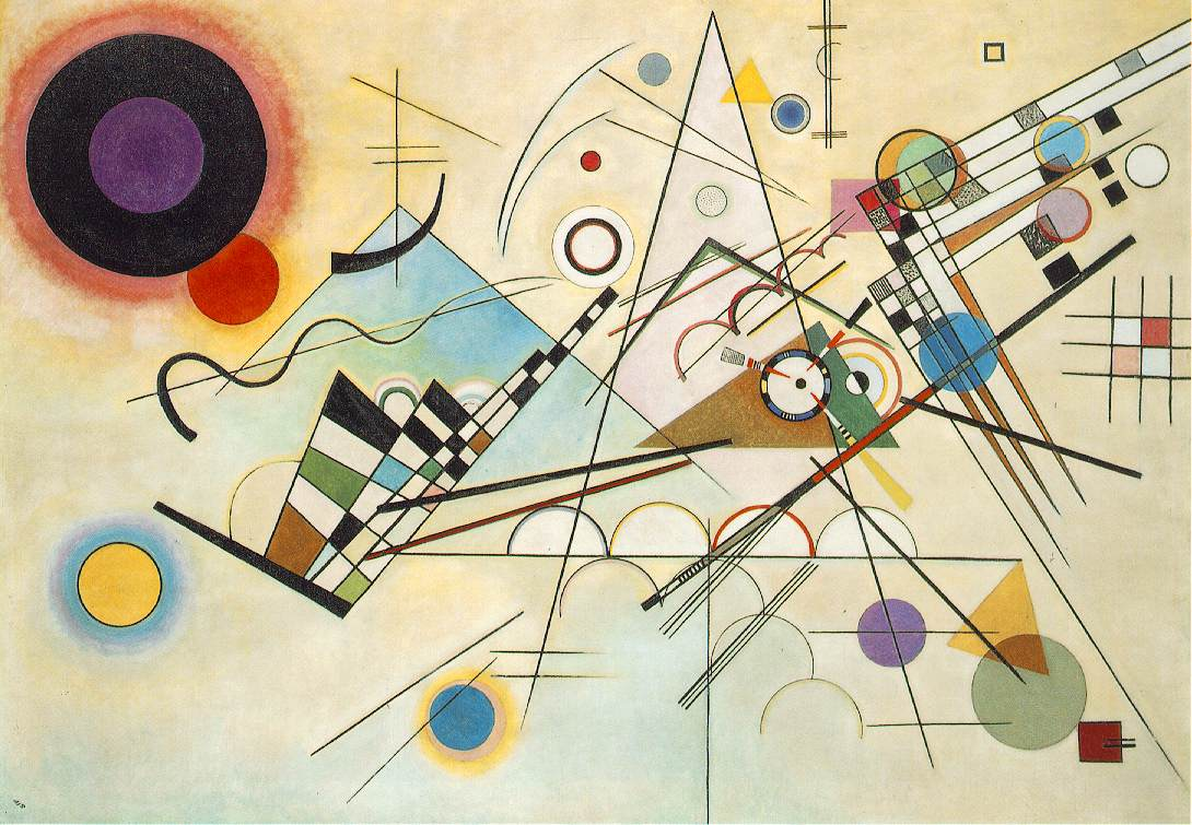 Composition 8